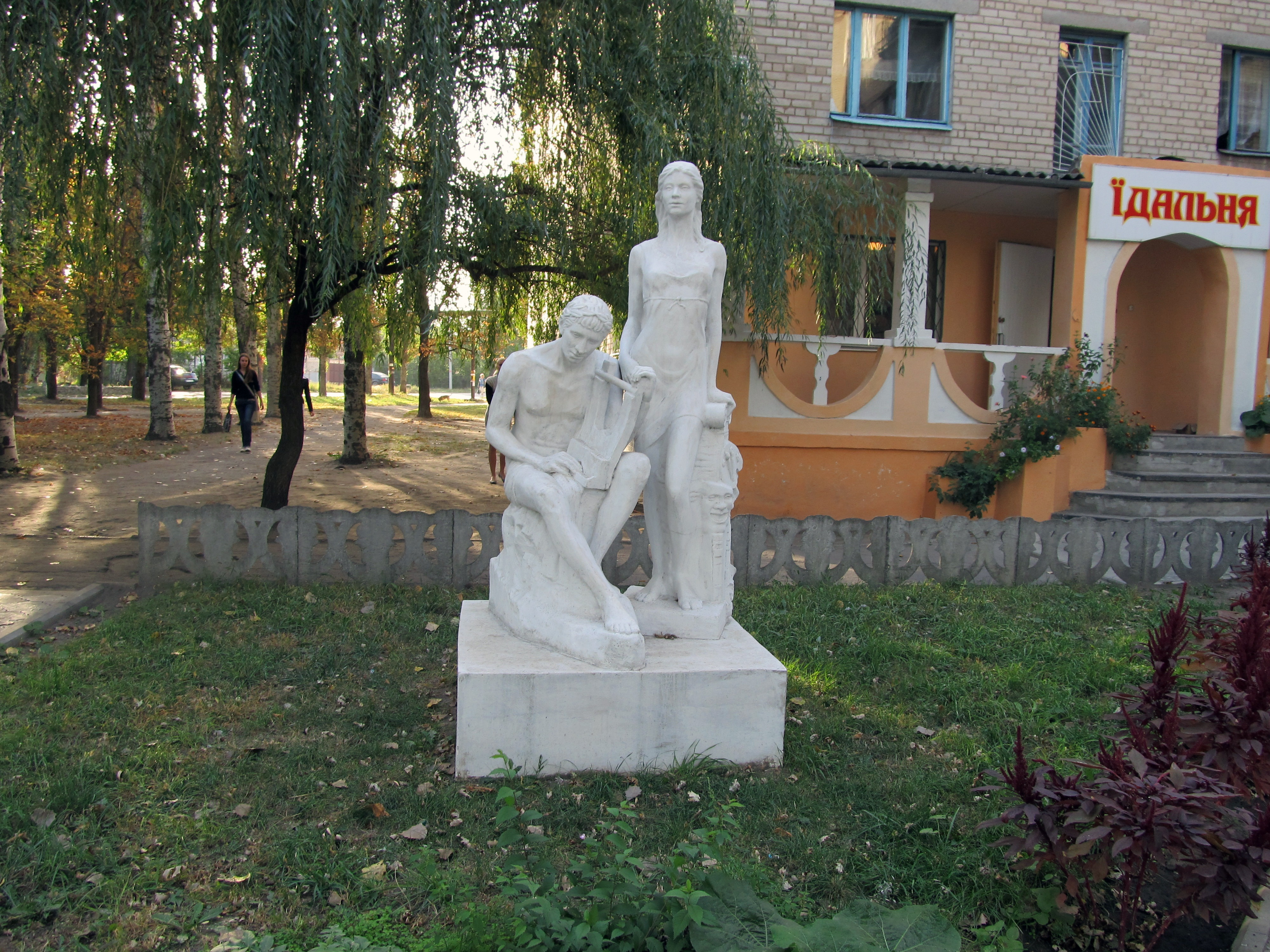 Bogdana Hmelnitskogo Ave., Melitopol, Zaporizhia Oblast, Ukraine.